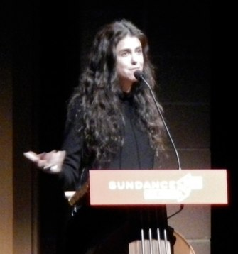 Italian-American director and writer Countess Francesca McKnight Donatella Romana Gregorini di Savignano di Romagna speaks about her film "Emanuel and the Truth about Fishes" at the Sundance Film Festival.